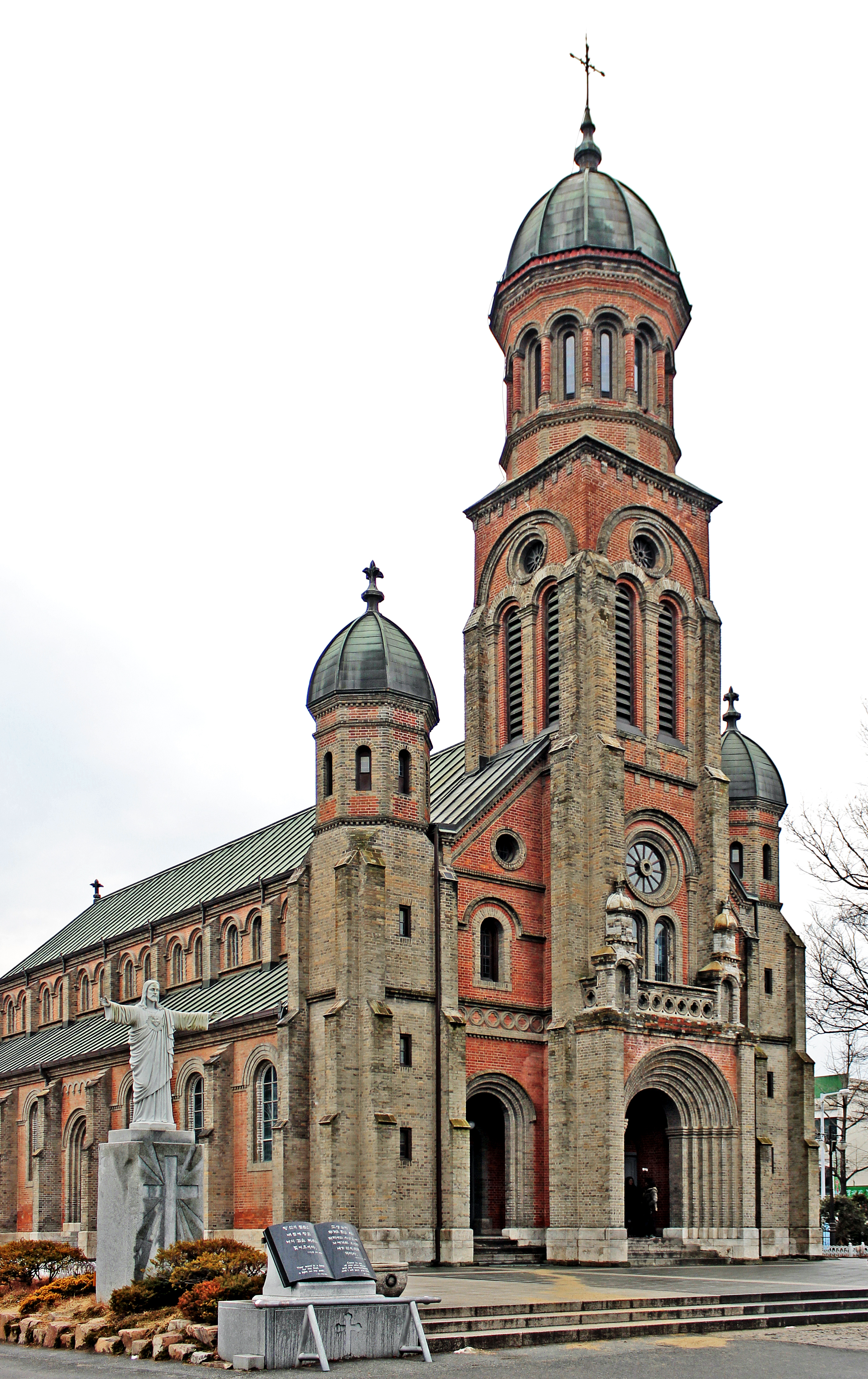 Jeondong Cathedral